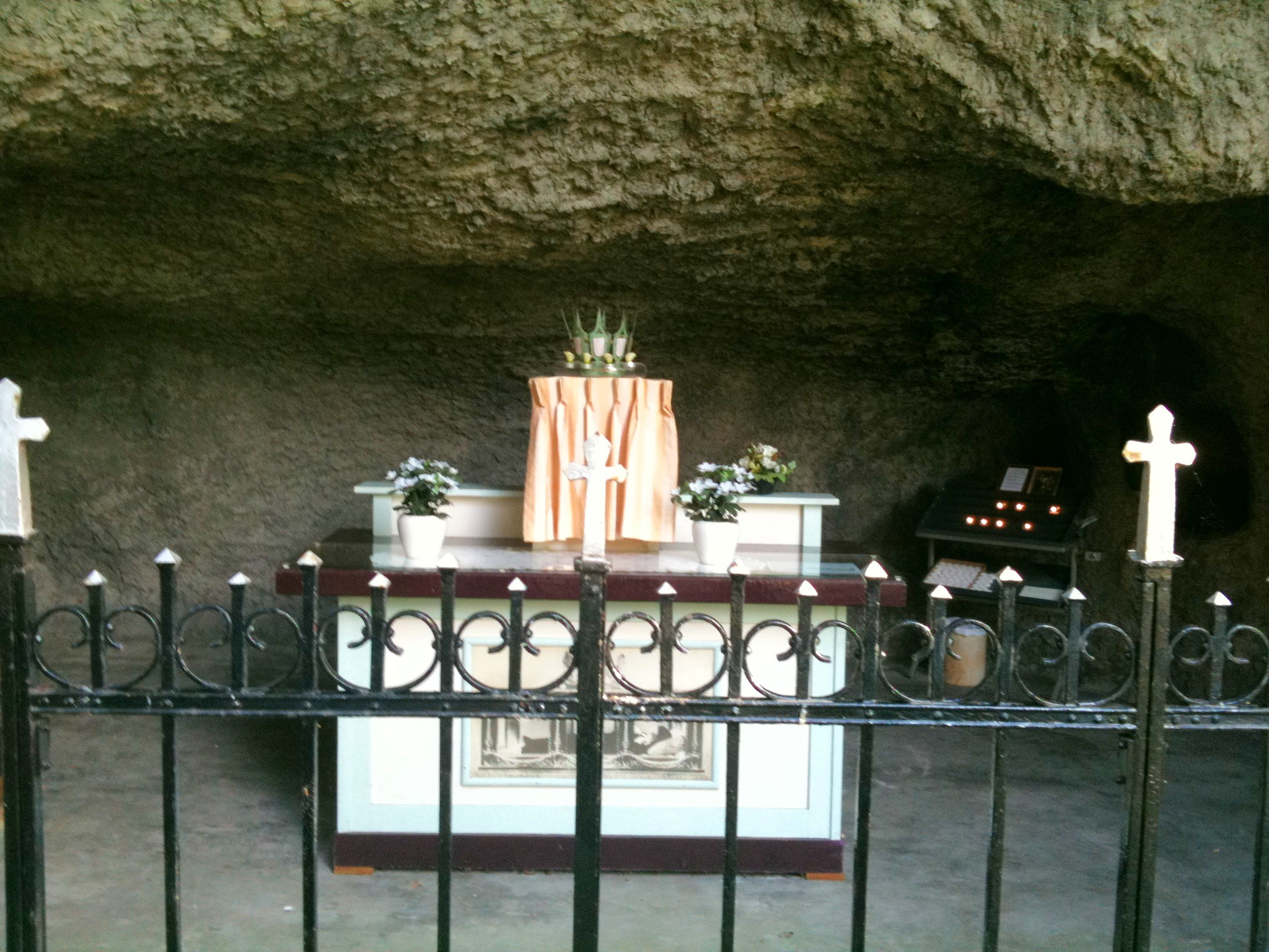 Lourdes grotto in Sint Nicolaasga, Skarsterlân, Friesland, Netherlands.